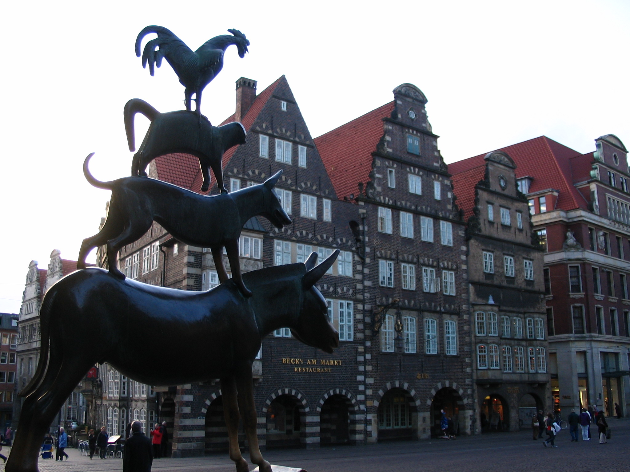 Bremen monument with the "Bremen Town Musicians" and the old medieval buildings as a background